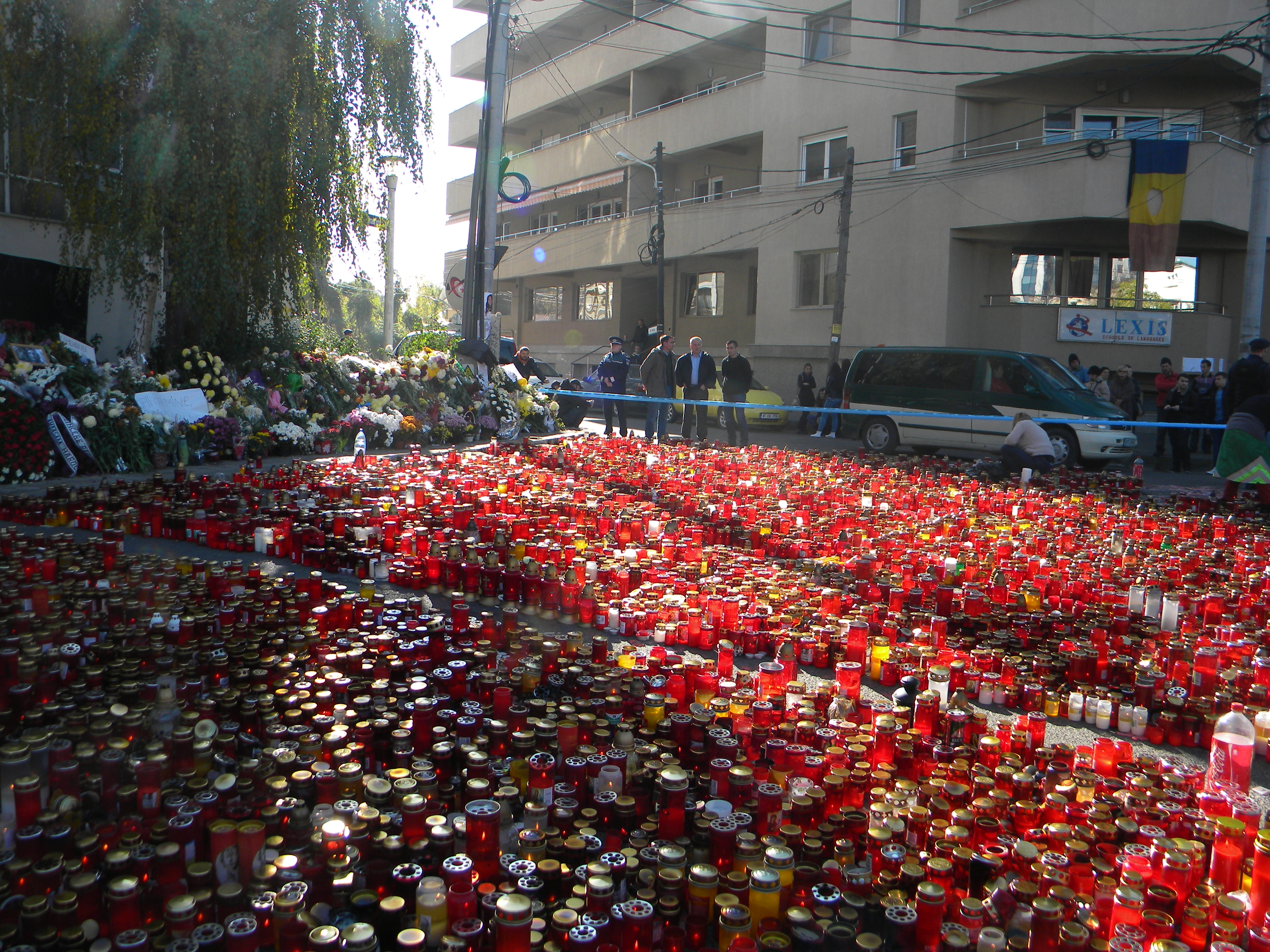 Bucuresti, Romania, Club Colectiv (Mii de Candele rosii ptr. mortii din club)(Tristete fara glas)